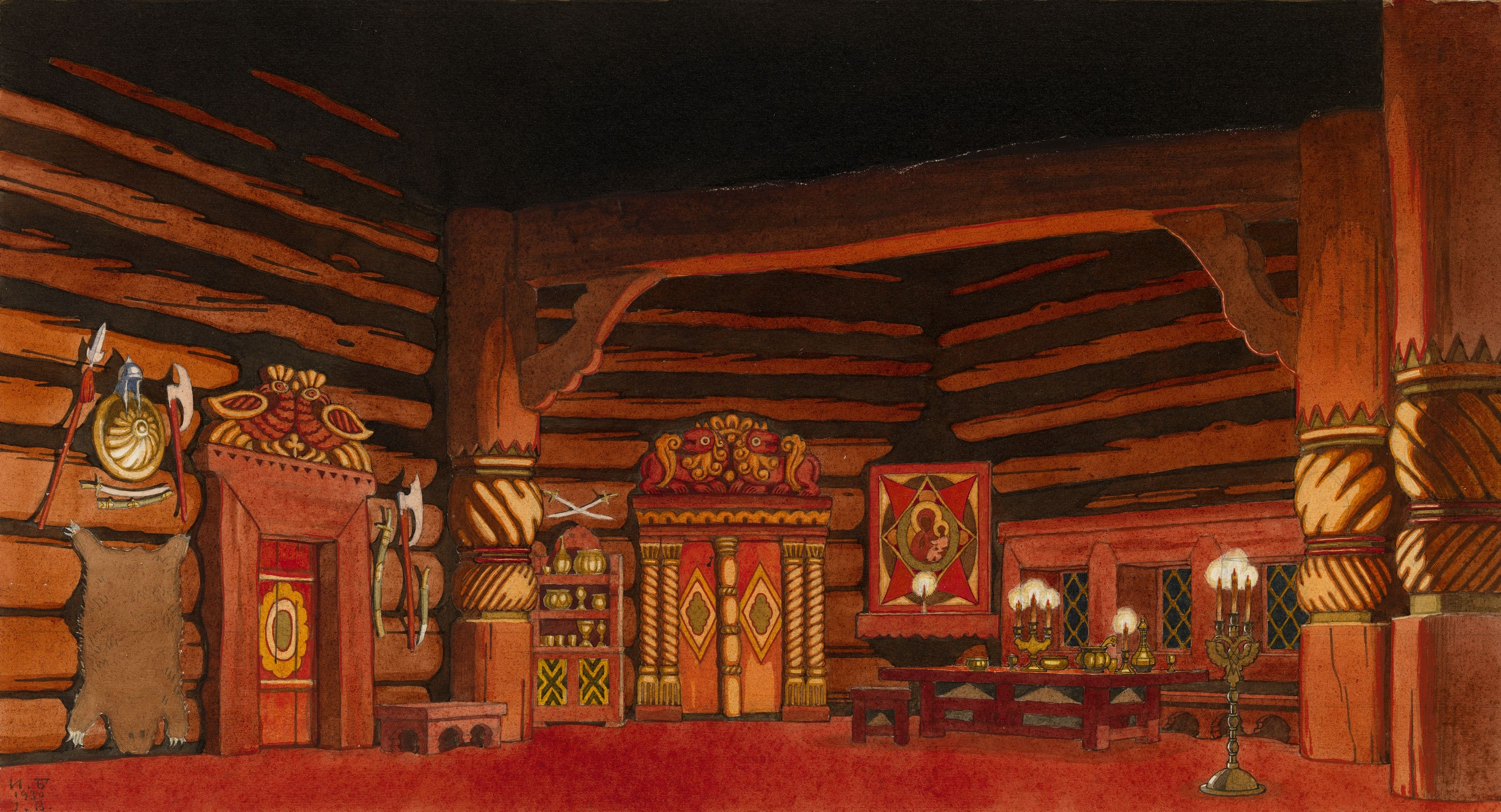 BILIBINE, IVAN (1876-1942) Set Design for the Opera "The Tsar's Bride" by Nikolai Rimsky-Korsakov, First Act, signed twice with initials and dated 1930, further inscribed on the reverse. Pencil, black ink and gouache on cardboard, 39 by 52 cm (cardboard size); 22.5 by 42 cm (image size)